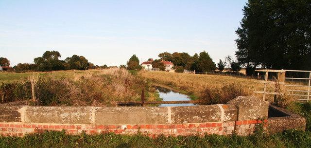 Three Bridges - well, one of them